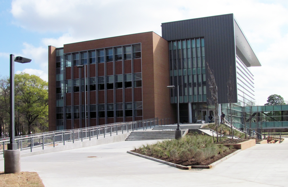 UALR Student Services Center